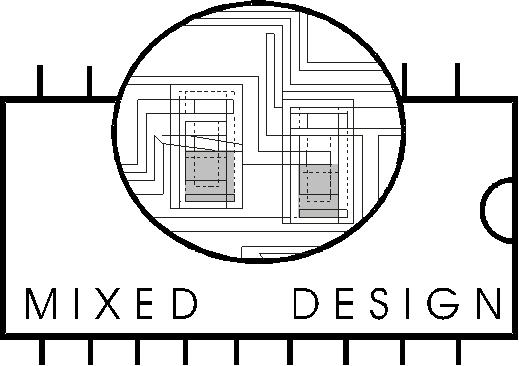 Logo of MIXDES Conference